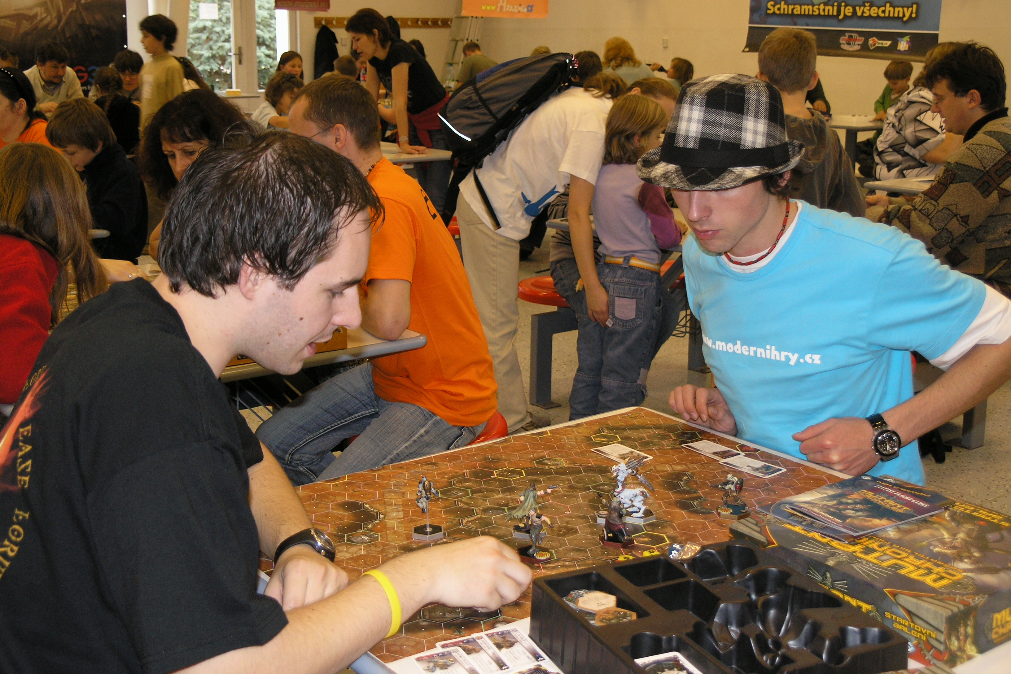 Personality rights warning Although this work is freely licensed or in the public domain, the person(s) shown may have rights that legally restrict certain re-uses unless those depicted consent to such uses. In these cases, a model release or other evidence of consent could protect you from infringement claims.